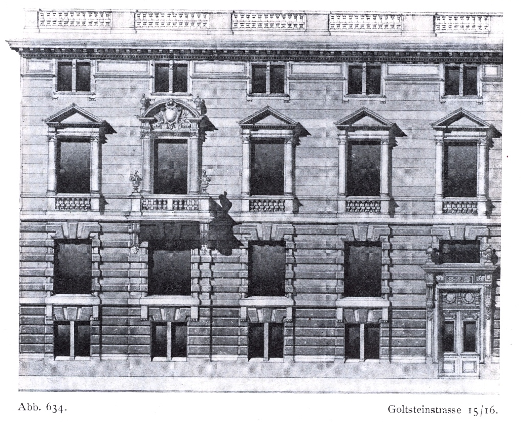 Haus Goltsteinstraße 15 und 16 in Düsseldorf, erbaut durch Kayser & von Grossheim aus Berlin im Jahre 1899,_Aufriss.jpg